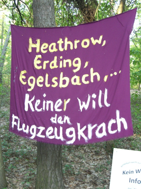 'Heathrow, Erding, Egelsbach, nobody wants your aircraft noise'